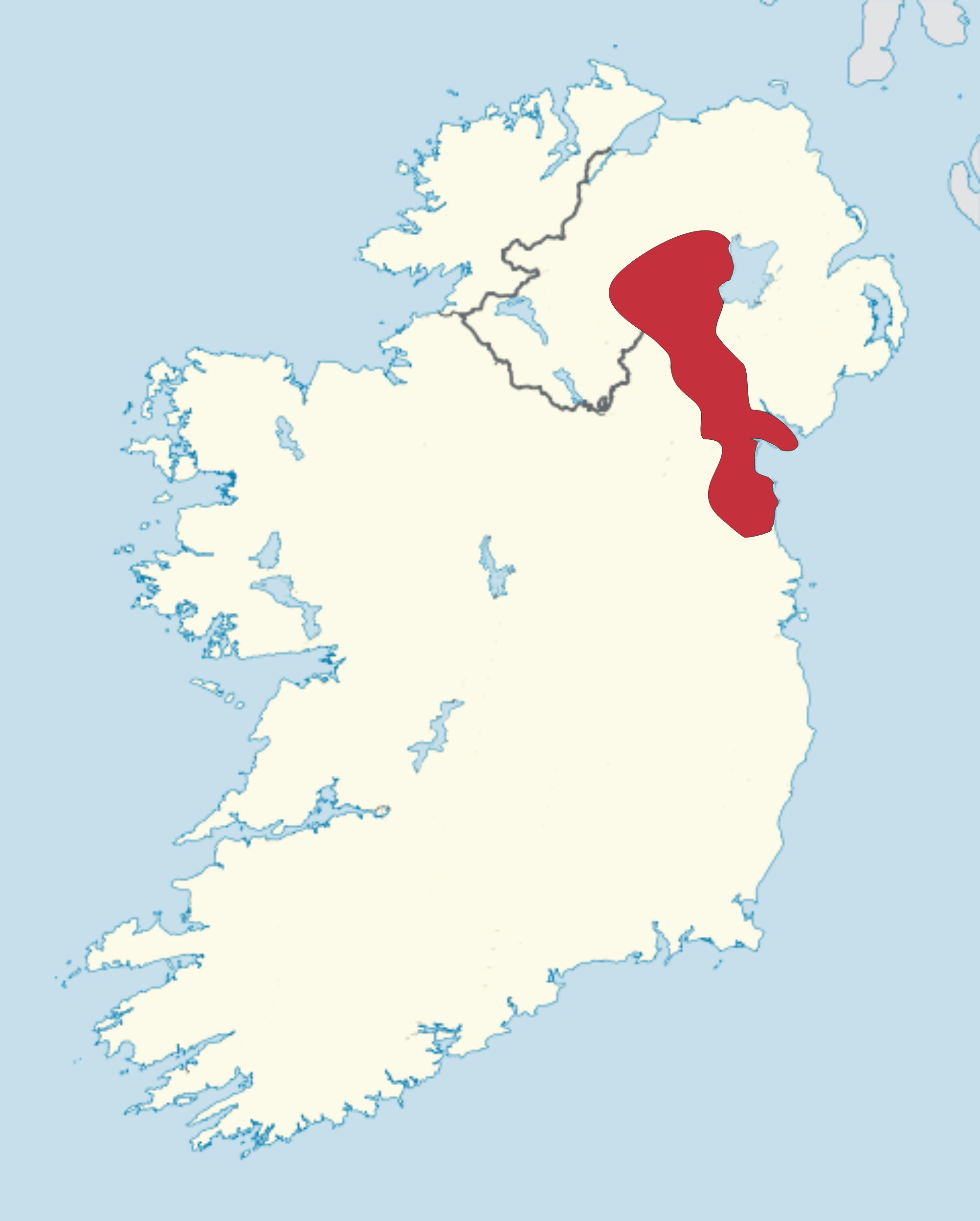 Map of the Roman Catholic Archdiocese of Armagh in Ireland